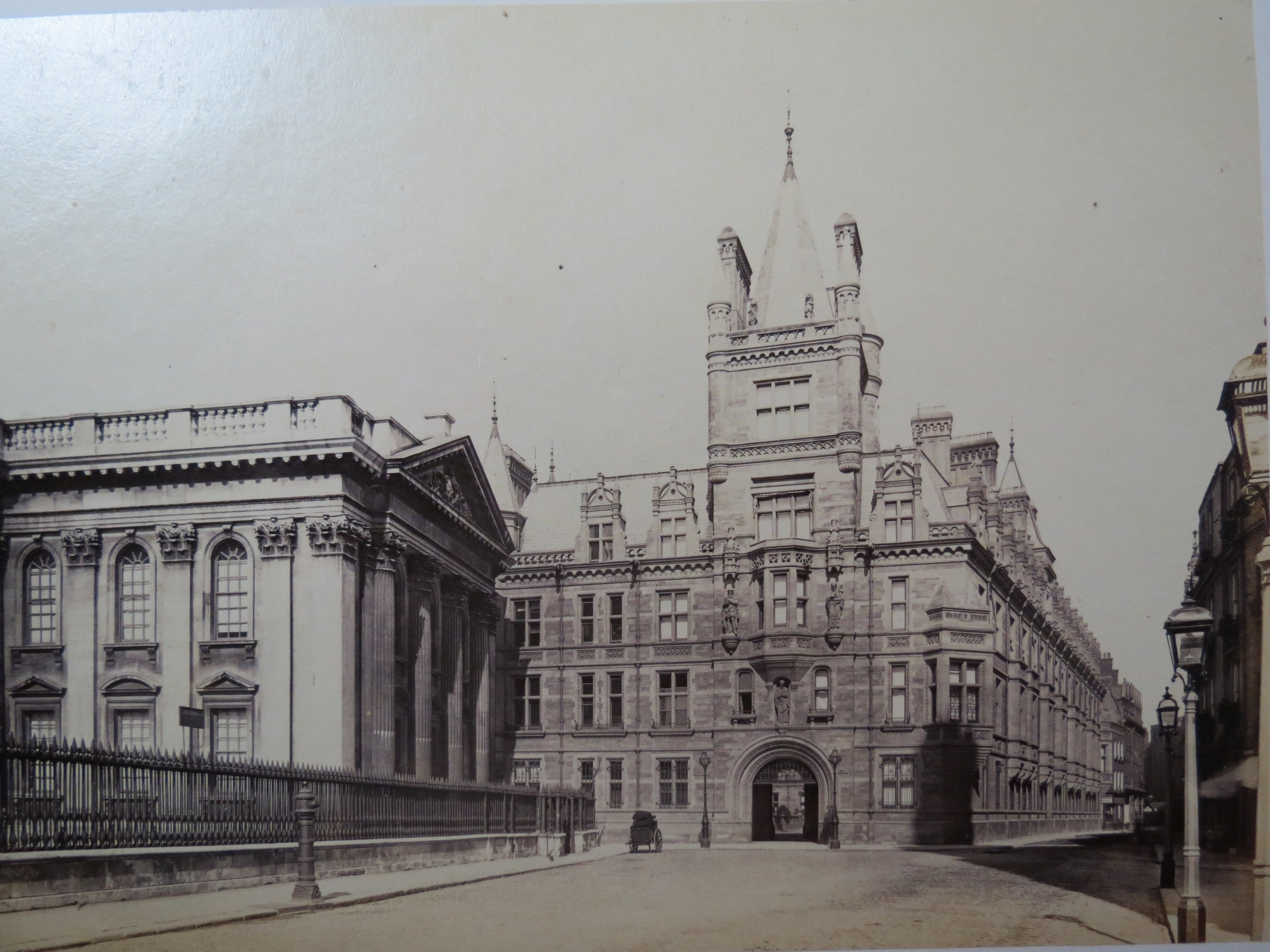 Gonville & Caius College, from King's Parade, Cambridge University. Image taken from original albumen print from a bound album of 58 Cambridge University photographs. Original 19th century album in the possession of Kimberly Blaker, New Boston Fine and Rare Books.